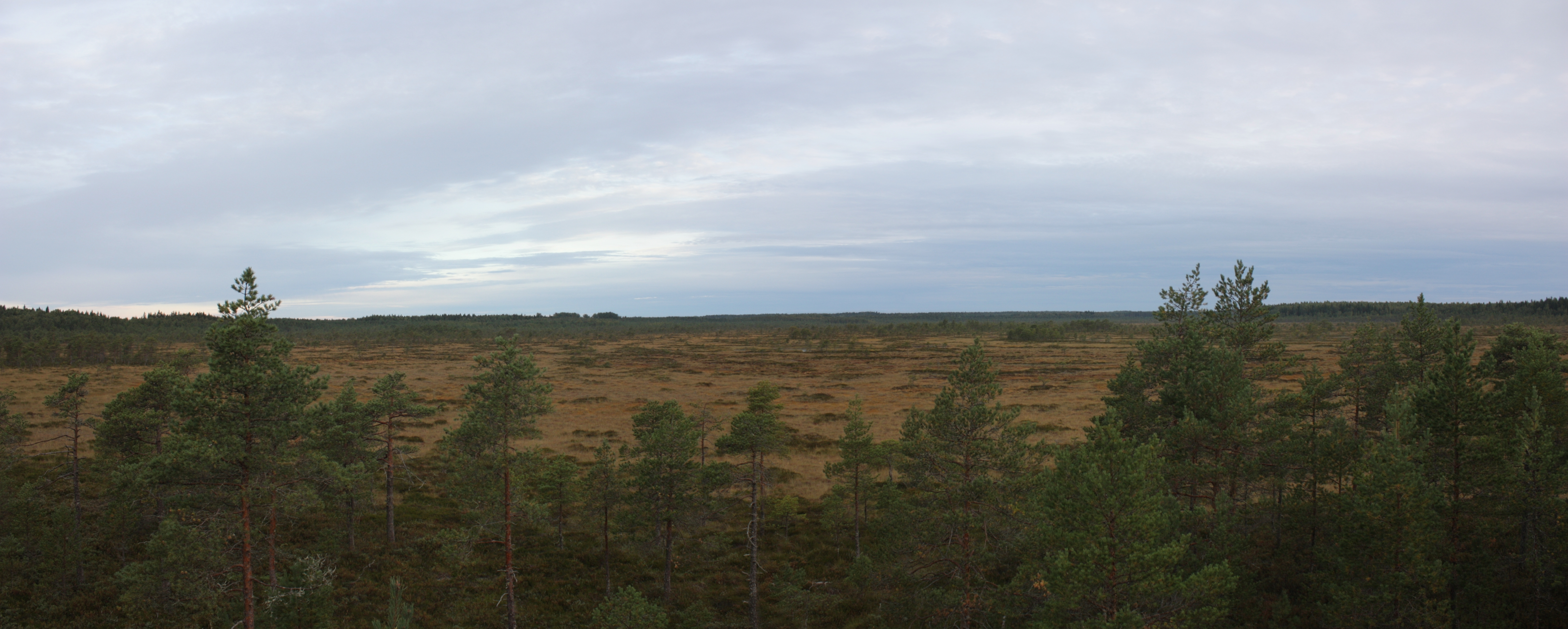 A panorama image of Vajosuo in Kurjenrahka National Park, Finland. Image taken from the nature tower at the south end of the bog.